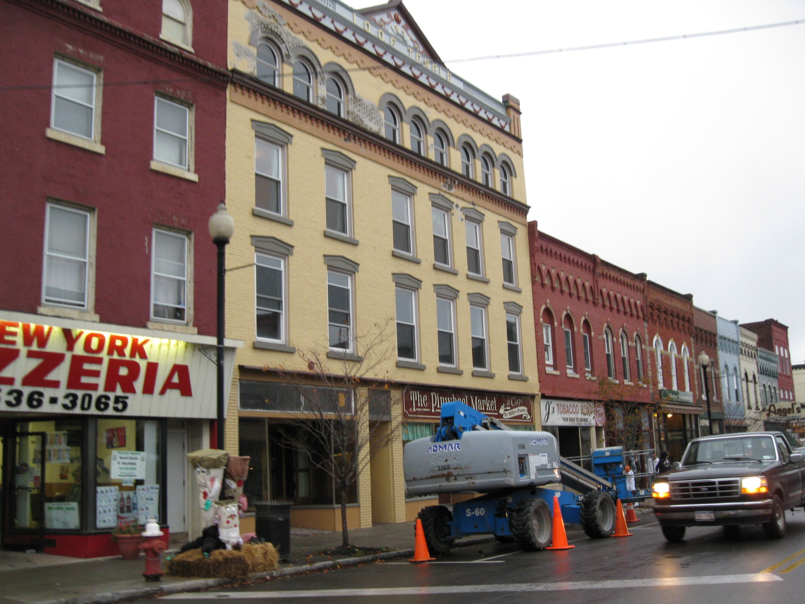 Penn Yan, New York